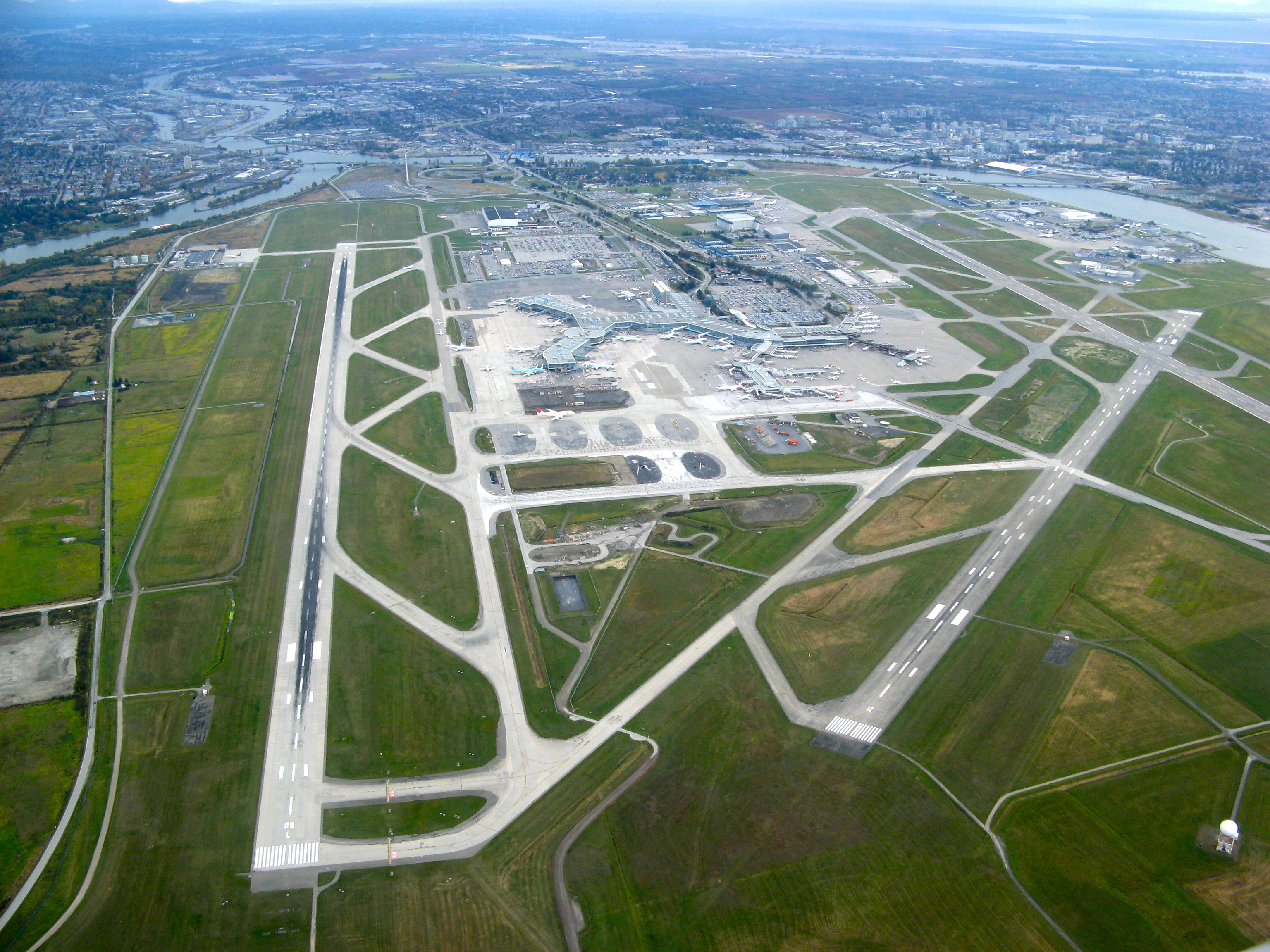 A high resolution, aerial photograph of the Vancouver International Airport. Taken from a Vancouver–Victoria sea plane.